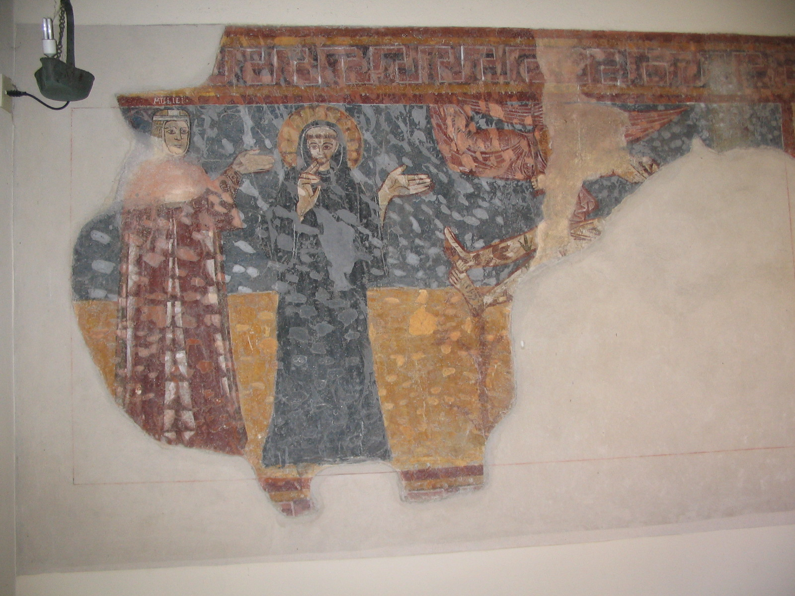 Priorato di Piona: Benedict of Nursia. Fresco in the cloister. Picture by: Giorces.